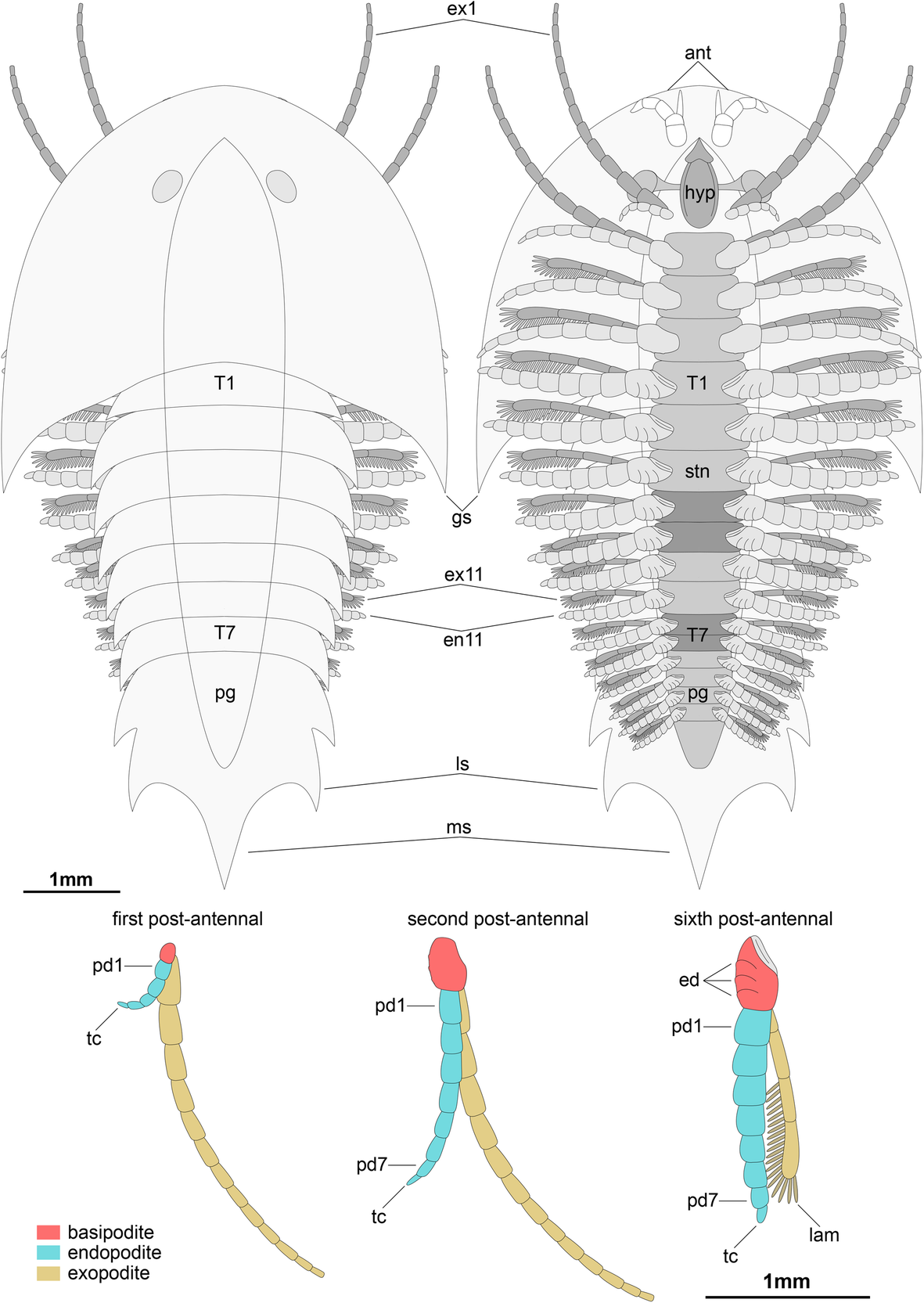 Morphological reconstruction of Sinoburius lunaris based on specimen YKLP 11407. Sternites associated with diplotergites highlighted. Abbreviations: ans, antennal scale; ant, antennae; ed., endite; en, endopod; ex, exopod; ey, eye; gs, genal spine; hyp, hypostome; lam, lamellae; ls, lateral spine; ms, median spine; pdn, podomere; pg, pygidium; stn, sternite; tc, terminal claw; Tn, thoracic segment